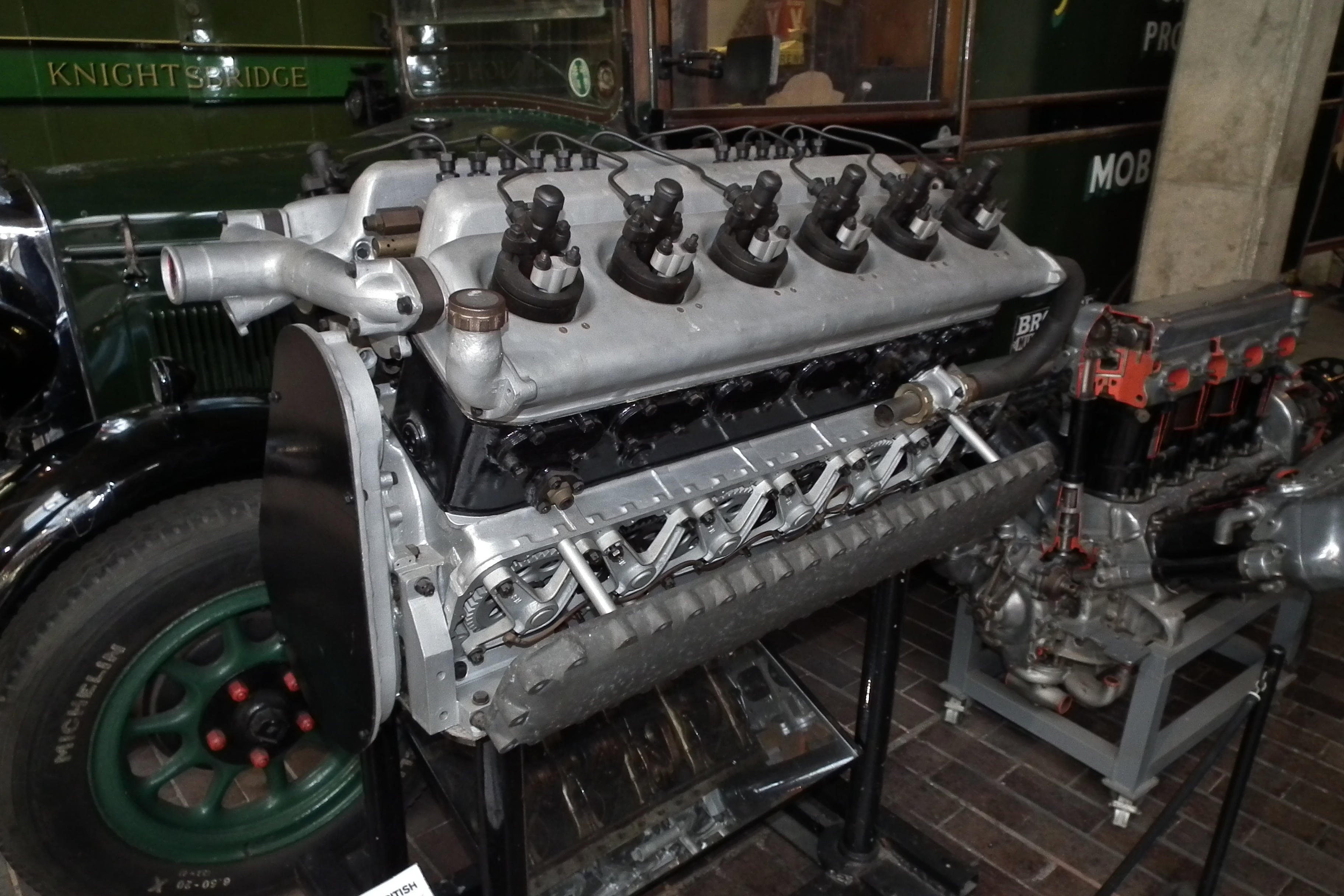 1930 Rolls-Royce Ricardo Diesel Engine RR/D from the Flying Spray Land Speed Record breaking car. V12 sleeve-valve 17-litres Diesel Taken at the National Motor Museum in Beaulieu, Hampshire, England.